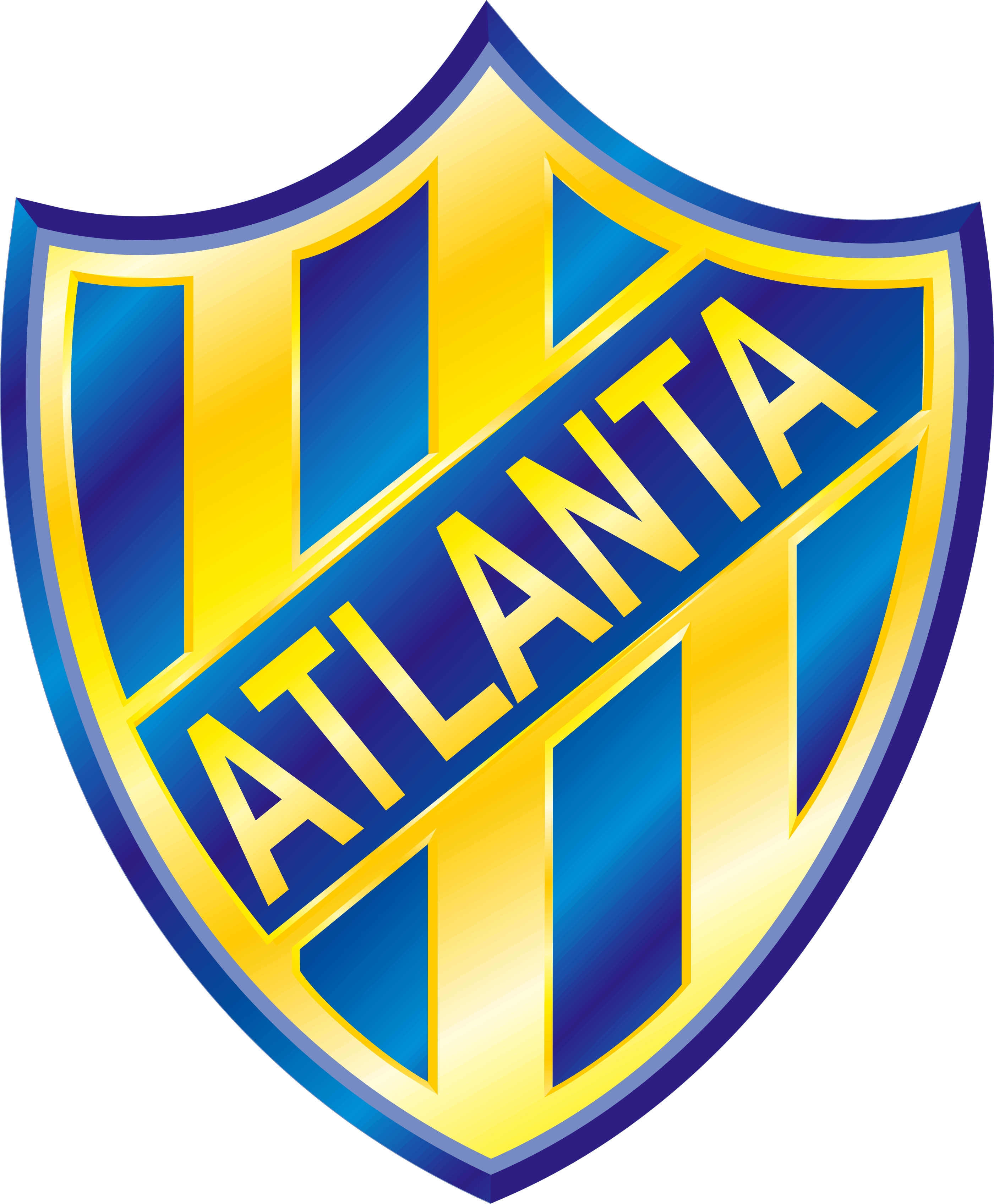 Logo for Club Atletico Atlanta, released to commemorate club's 100th. anniversary.